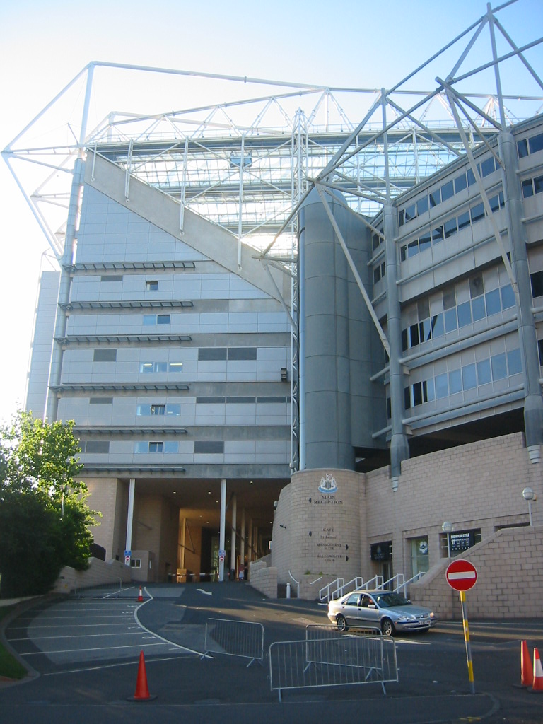 The St James' Park football stadium in Newcastle-upon-Tyne, England Source: Jaakko Sakari Reinikainen (ulayiti)